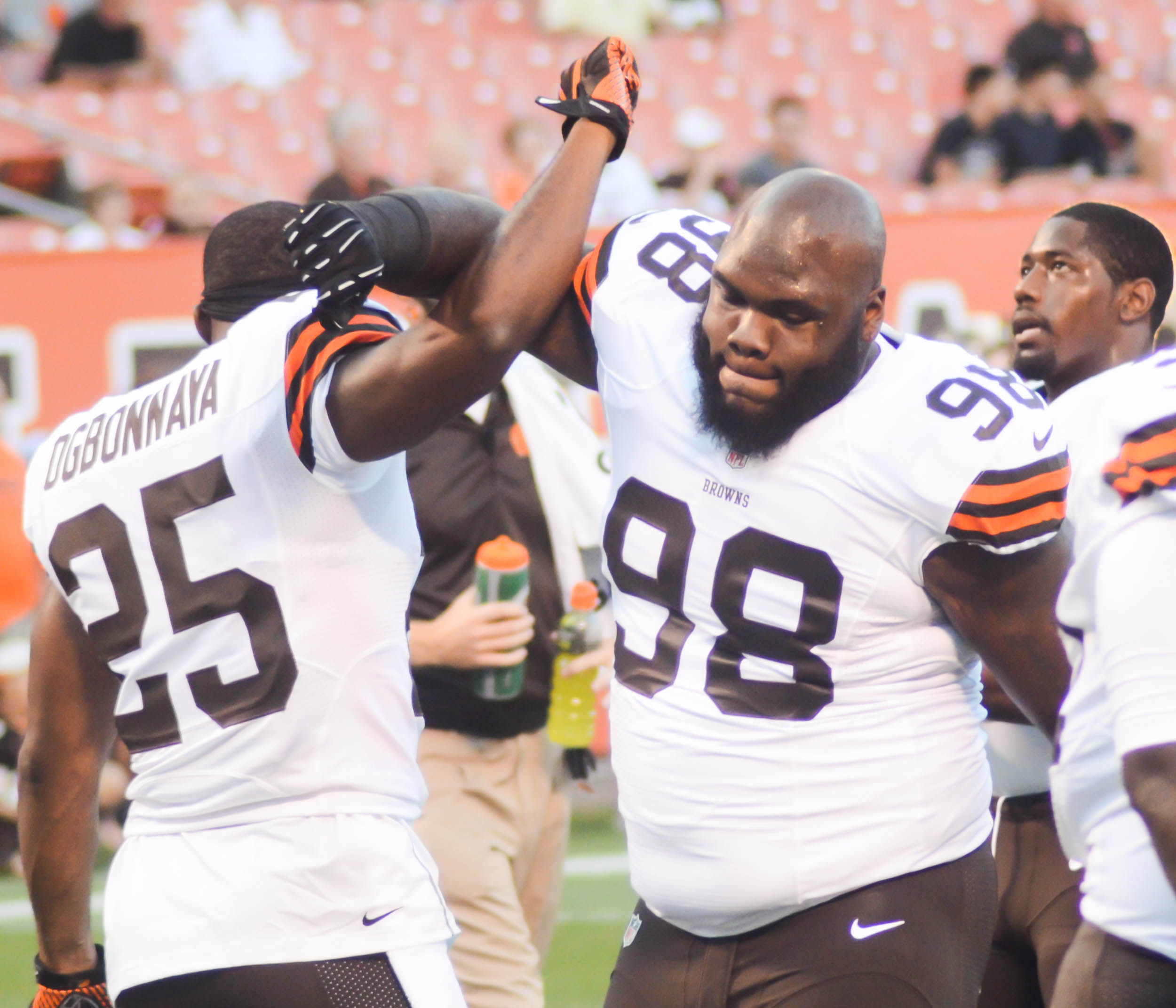 Cleveland Browns running back Chris Ogbonaya (left, #25) and defensive lineman Phil Taylor (right, #98) before a 2014 game.